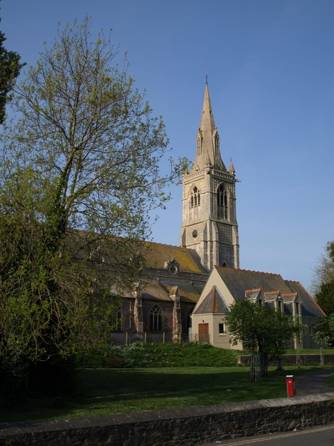 All Saints' church, Babbacombe. Another view of 1302963 from across St Anne's Road. describes the church in detail, with the tower and spire thus: "4-stage west tower with a stone spire with tall louvred lucarnes; projecting south-east 5-sided stair turret; set back buttresses rise to belfry stage."